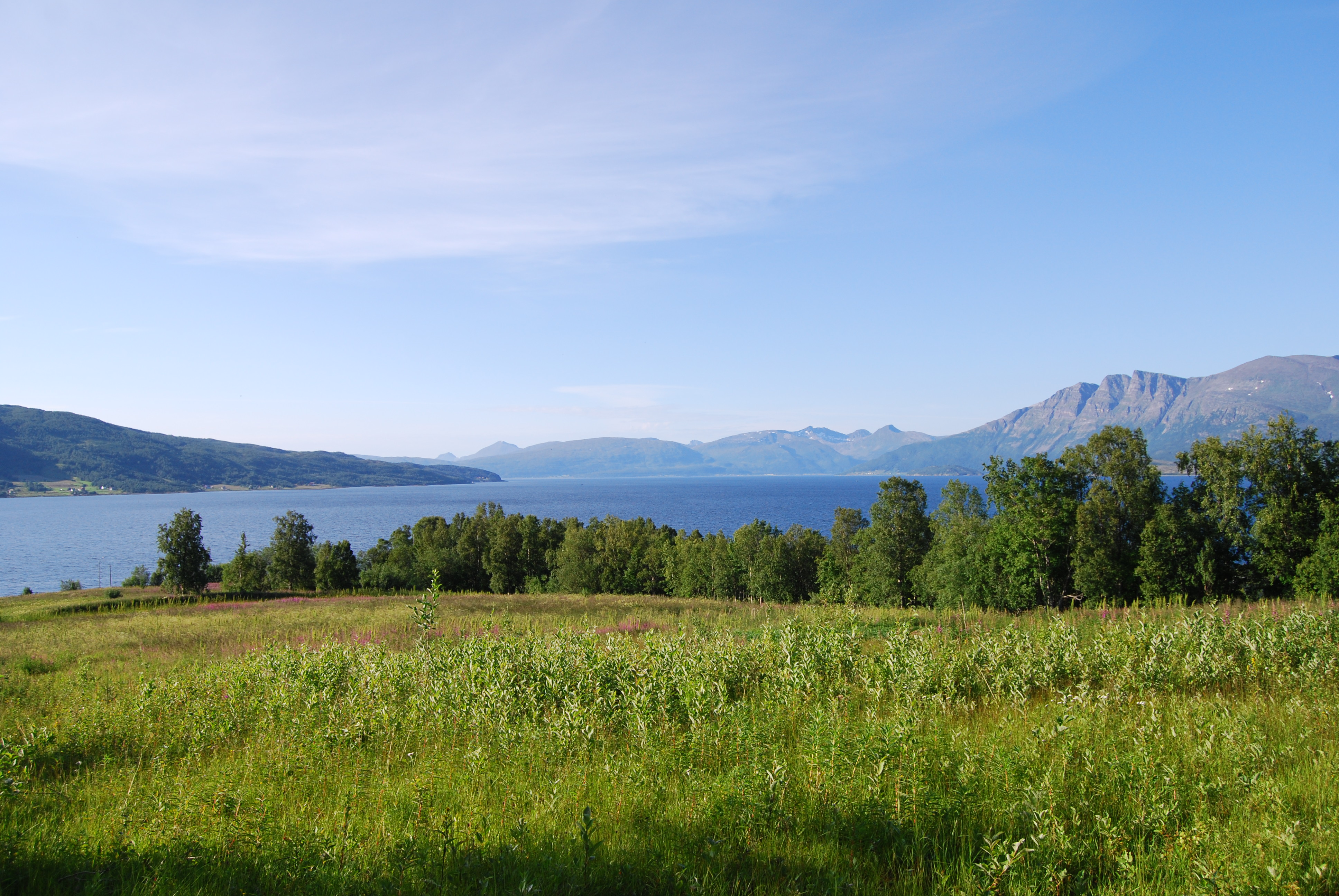 Malangen fjord, Norway.